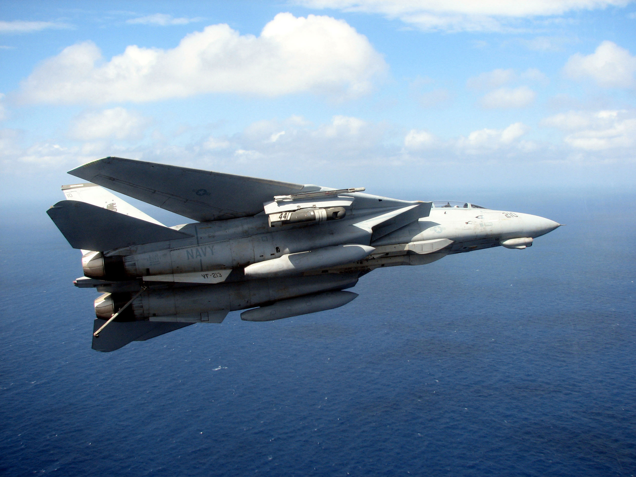 A US Navy (USN) F-14D Tomcat, Fighter Squadron 213 (VF-213), Blacklions, Naval Air Station (NAS) Oceana, Virginia (VA), banks with its tailhook lowered in preparation for landing after conducting a mission over the Mediterranean Sea. The Tomcat is equipped with an AAQ-14 LANTIRN (Low-Altitude Navigation and Targeting InfraRed for Night) pod on the pylon. The VF-213 is assigned to Carrier Air Wing 8 (CVW-8), are currently embarked aboard the Nimitz Class Aircraft Carrier USS THEODORE ROOSEVELT (CVN 71).